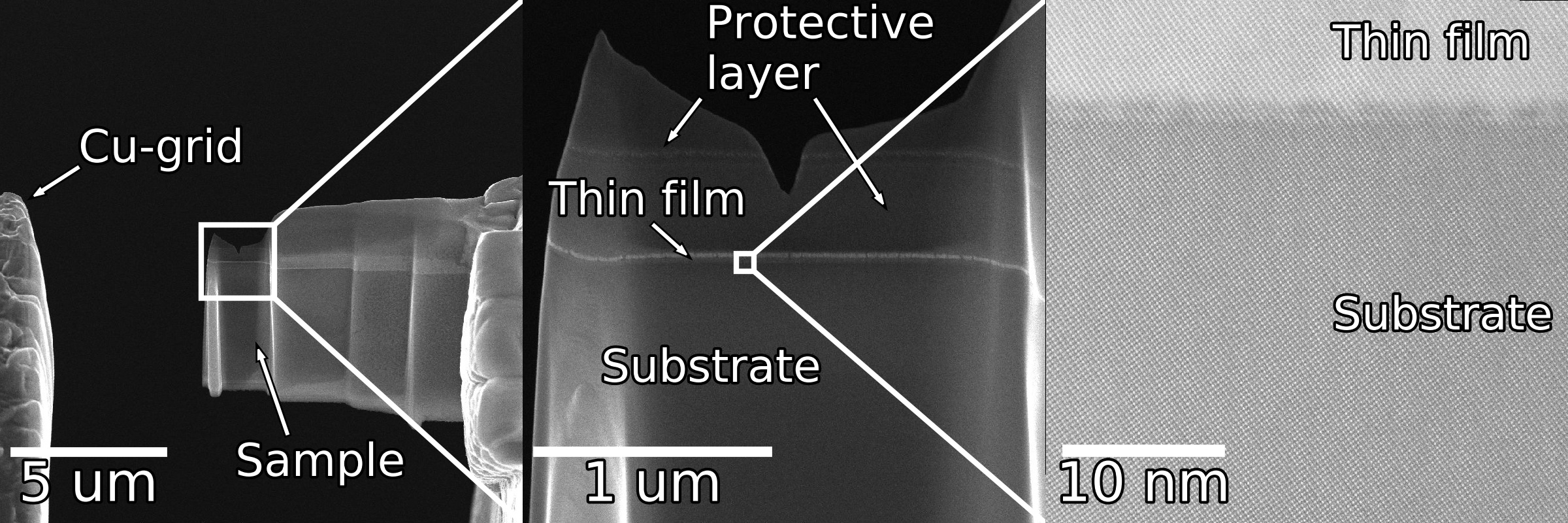 Images of the same thin film sample at different scales, showing the geometry of a transmission electron microscopy sample made using a focused ion beam. The two leftmost images are from the focused ion beam used to make the transmission electron microscopy sample, imaged using secondary electrons. The rightmost figure is a scanning transmission electron microscopy image, showing the atomic structure of the sample.